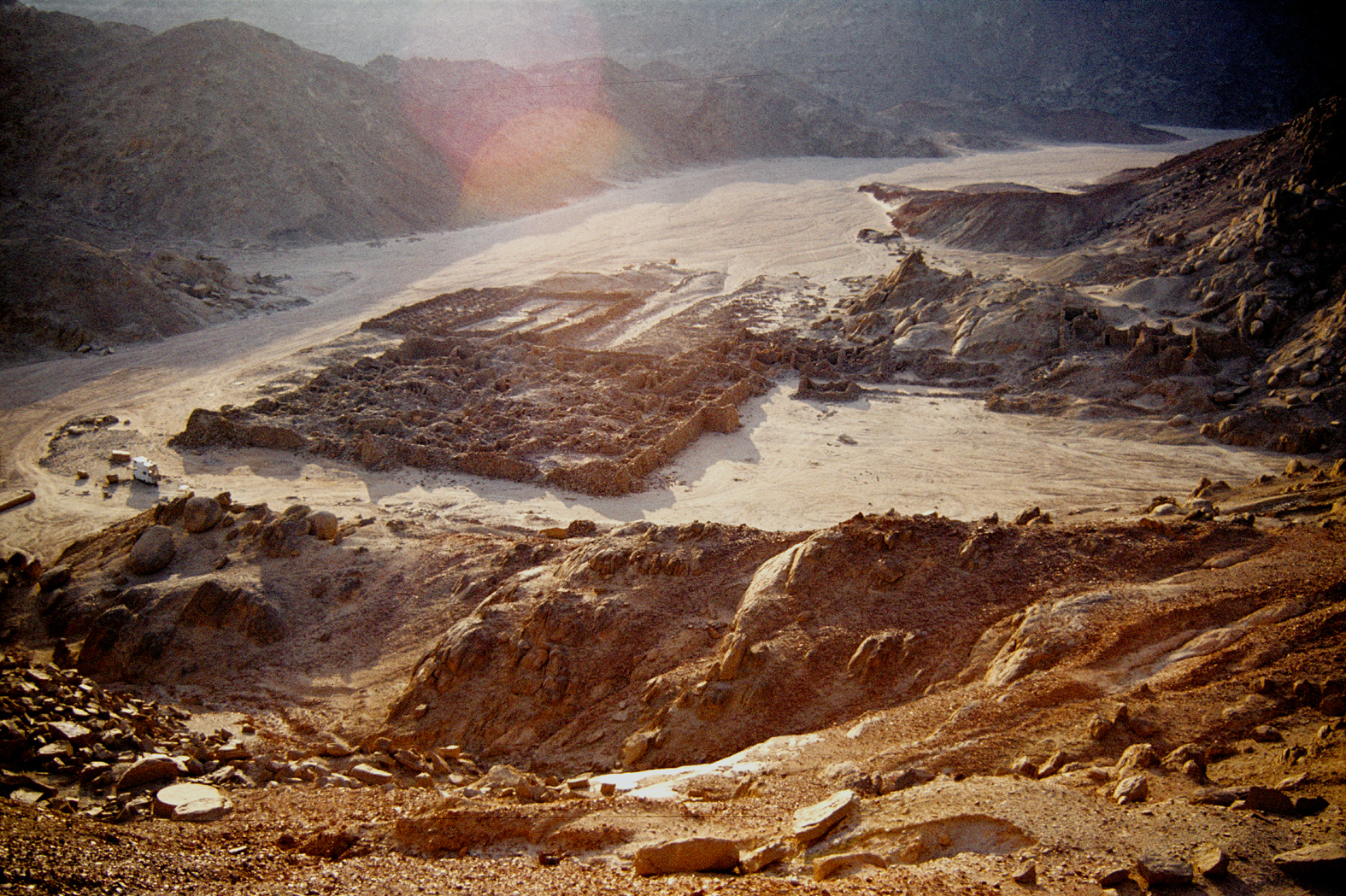 View from northeast to the camp, Mons Claudianus, eastern desert, Egypt.